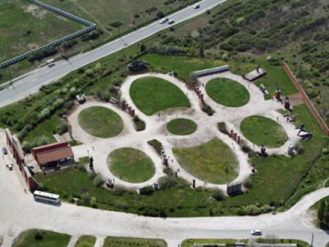 Statue park, Hungary, aerialphotography